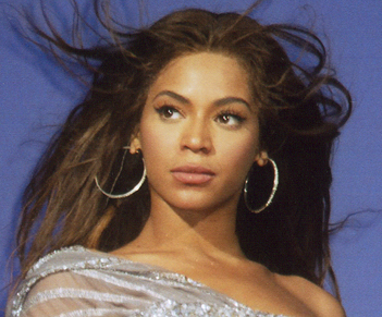 Beyoncé Knowles performing "Listen" during "The Beyoncé Experience" in Munich, Germany.